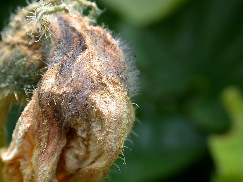 Choanephora cucurbitarum (Choanephoraceae Mucorales) on Pumpkin flower Japanese name;Kougaikekabi Date;2004,07,22;Susami town, Wakayama prefecture, Japan Author;Keisotyo